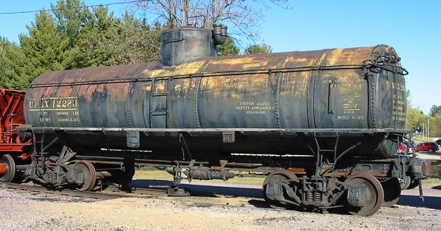 A tank car on display at the Mid-Continent Railway Museum in North Freedom, WI